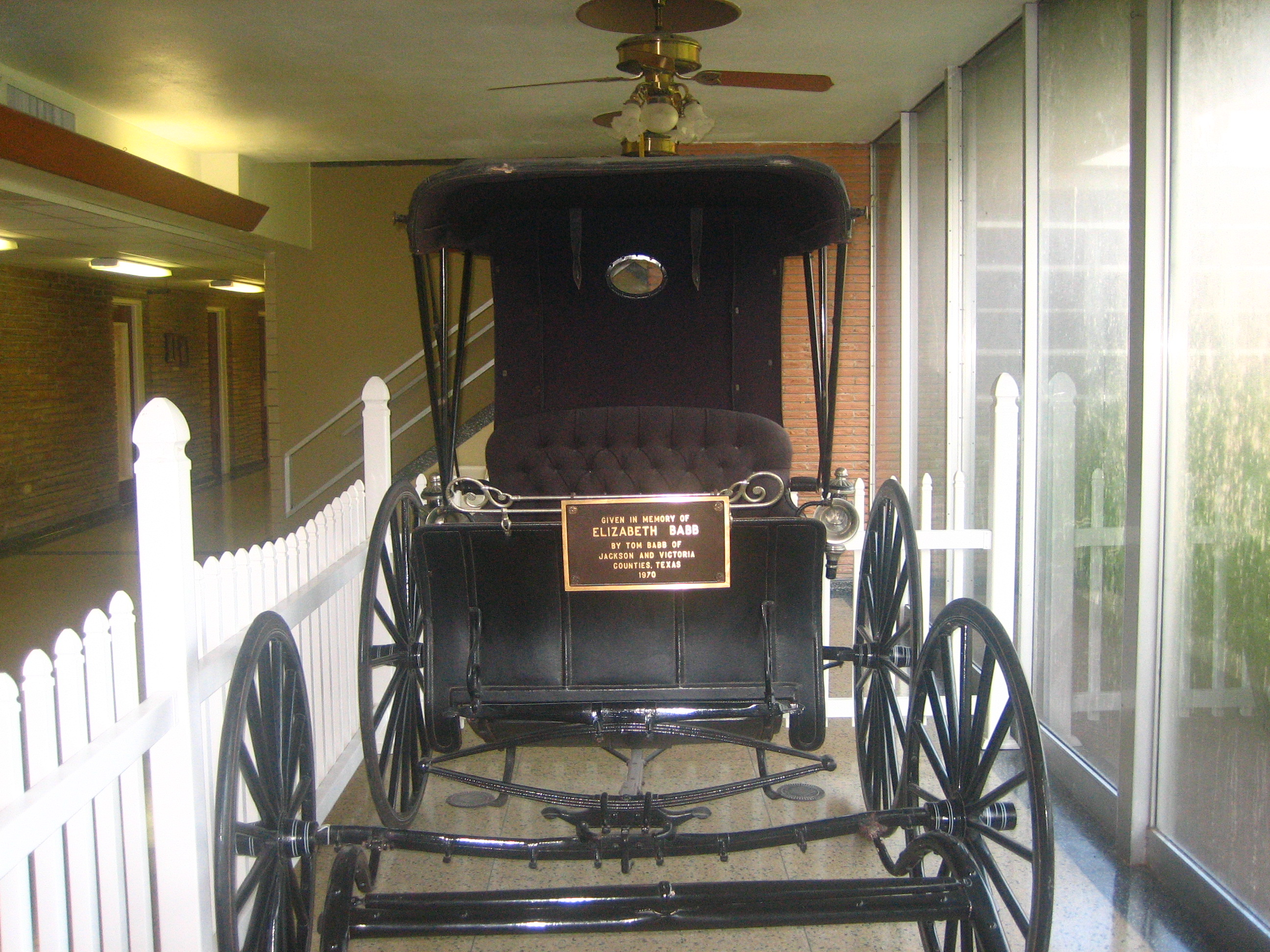 I took photo on July 31, 2008.Billy Hathorn (talk) 00:14, 18 August 2008 (UTC)